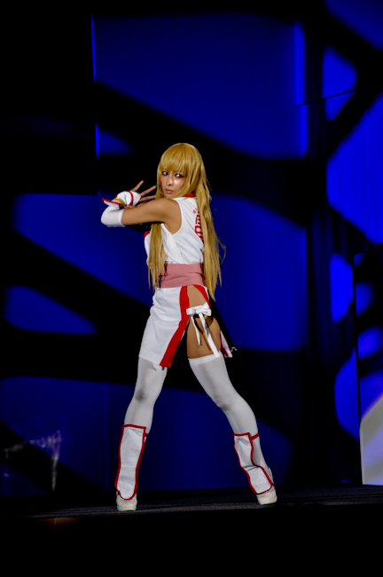 Kasumi cosplayer in Tokyo Game Show 2011